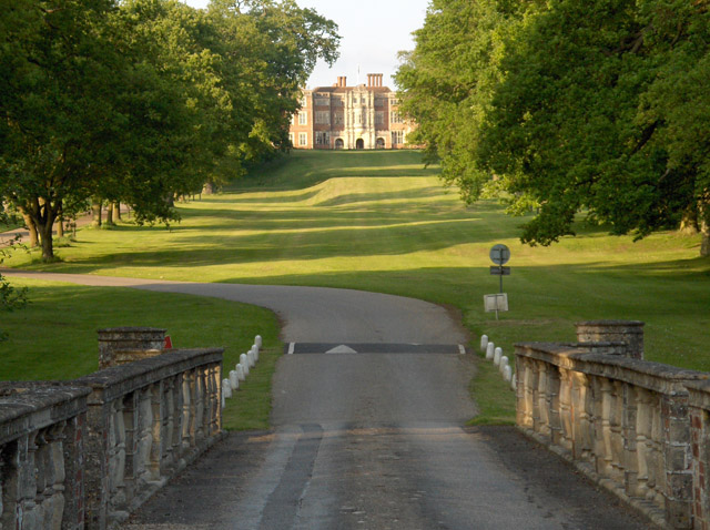 The approach to Bramshill House